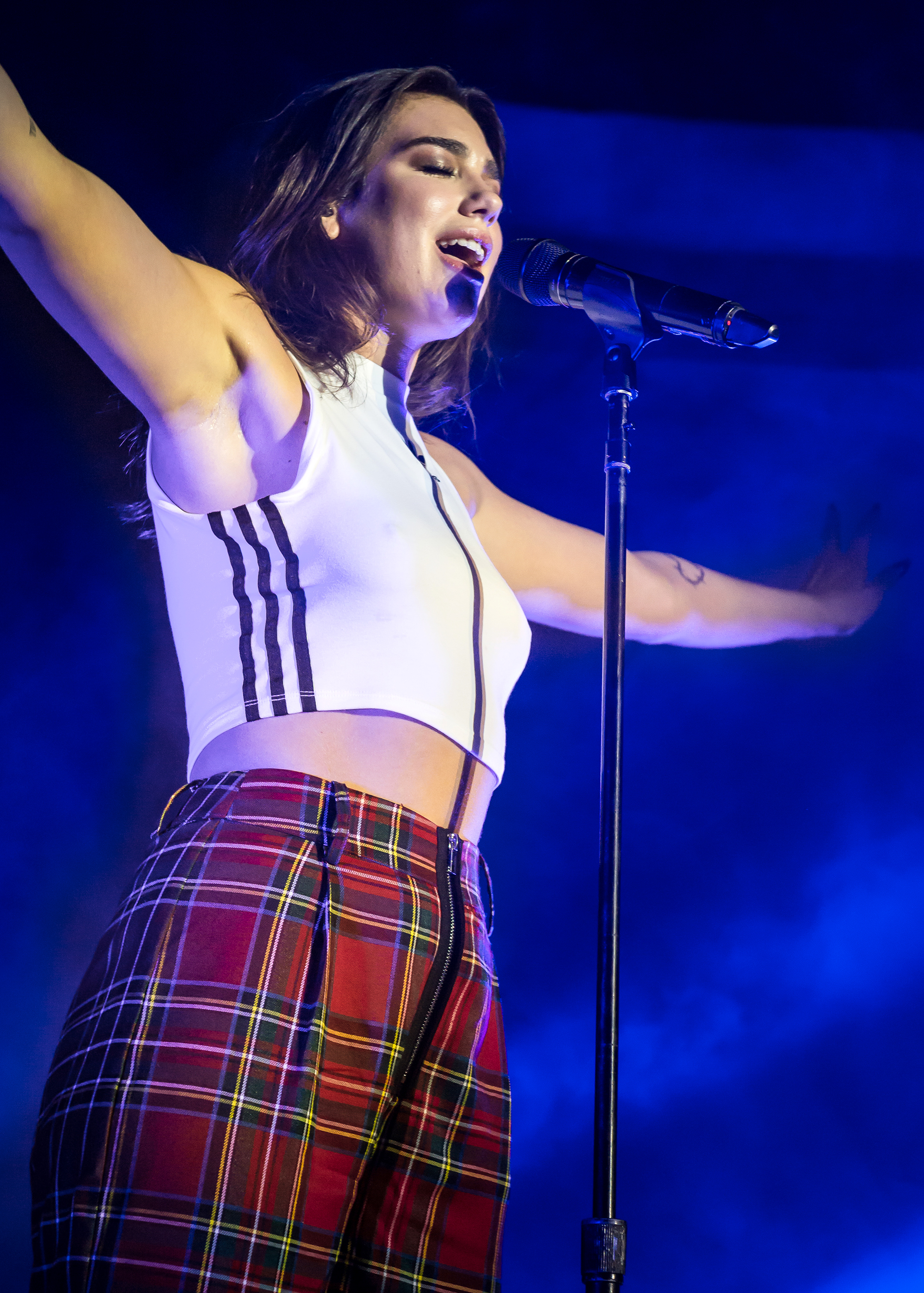 Dua Lipa performing live at The Palladium in Hollywood, Los Angeles, California, on Thursday, February 8, 2018. The first of two sold out nights at this venue on Dua's "Self-Titled" Tour. Shot for Live Nation's Ones To Watch.